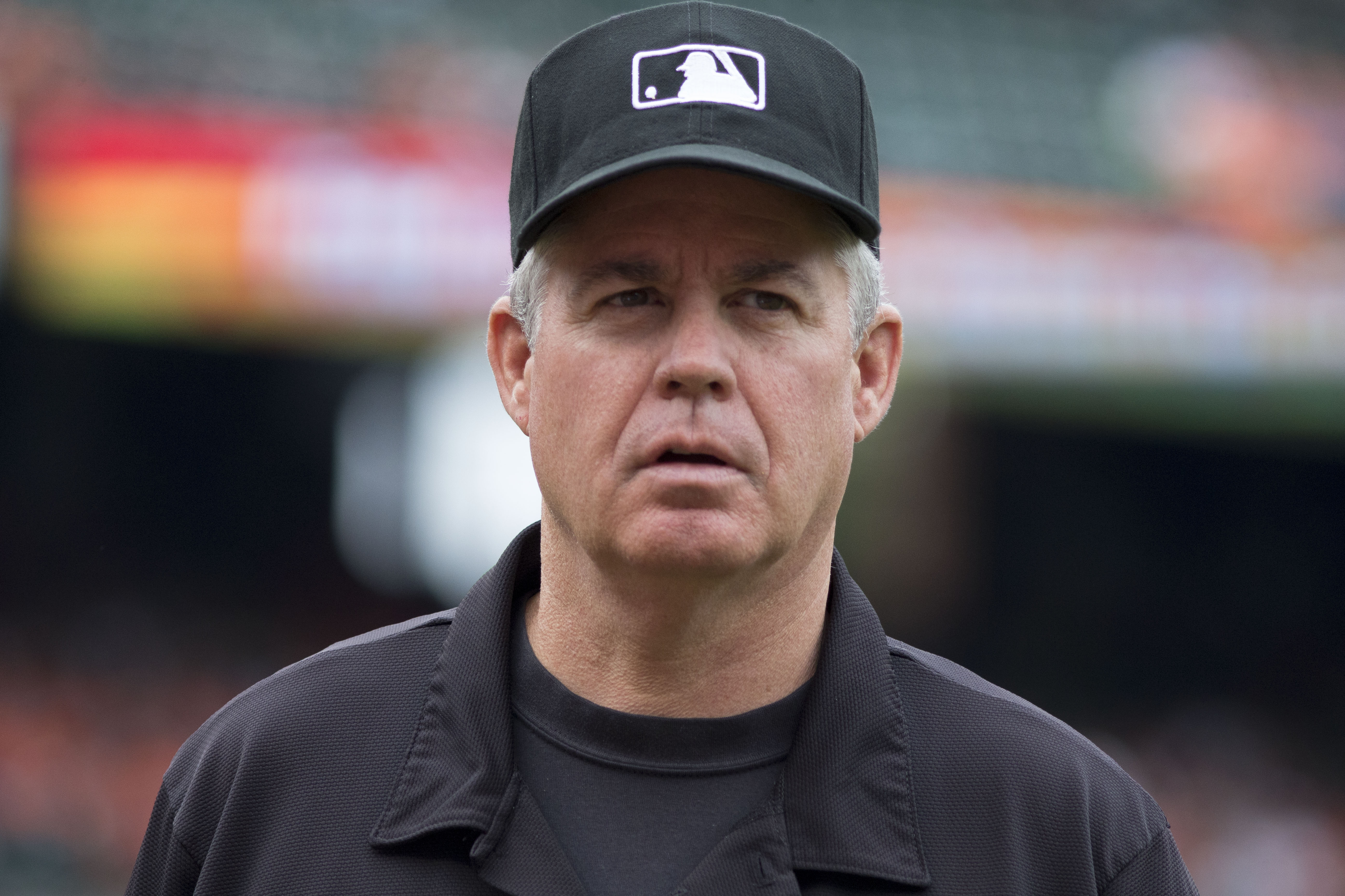 Umpire Gary Darling at a game between the Baltimore Orioles and the Colorado Rockies on August 18, 2013.